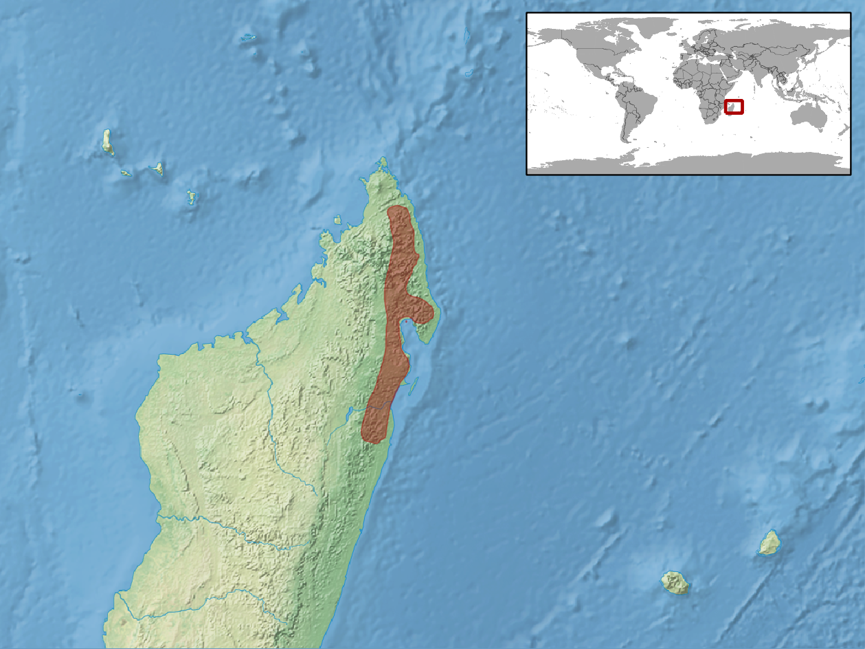 geograpohic distribution of Phelsuma guttata (Native: Madagascar)